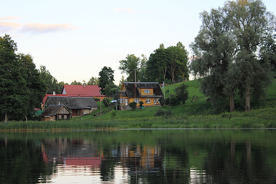 Farmhouse in Rõuge, Estonia.